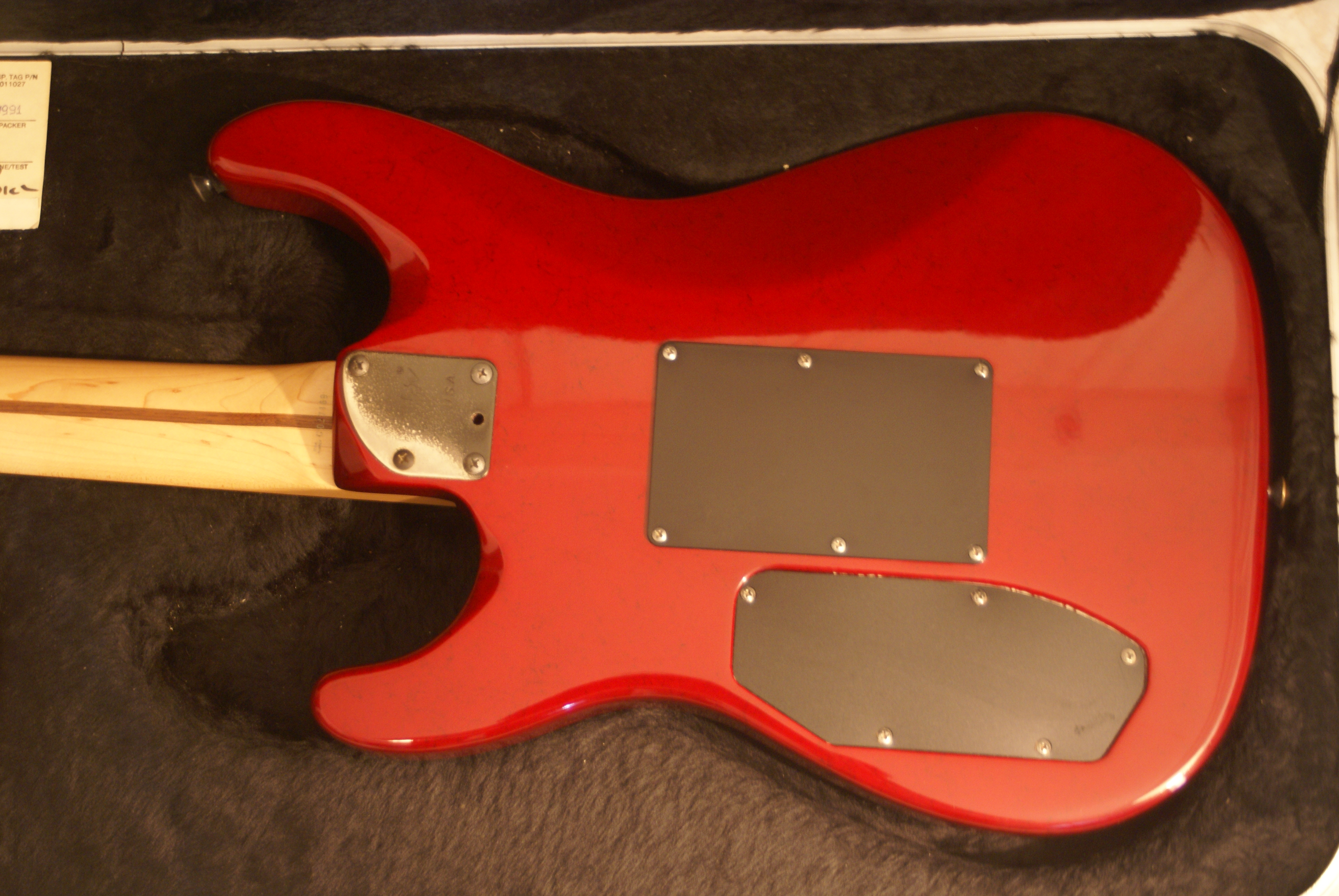 author: George Garinis source: own